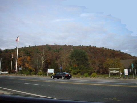 Photo taken by me of Great Blue Hill on October 25, 2009.